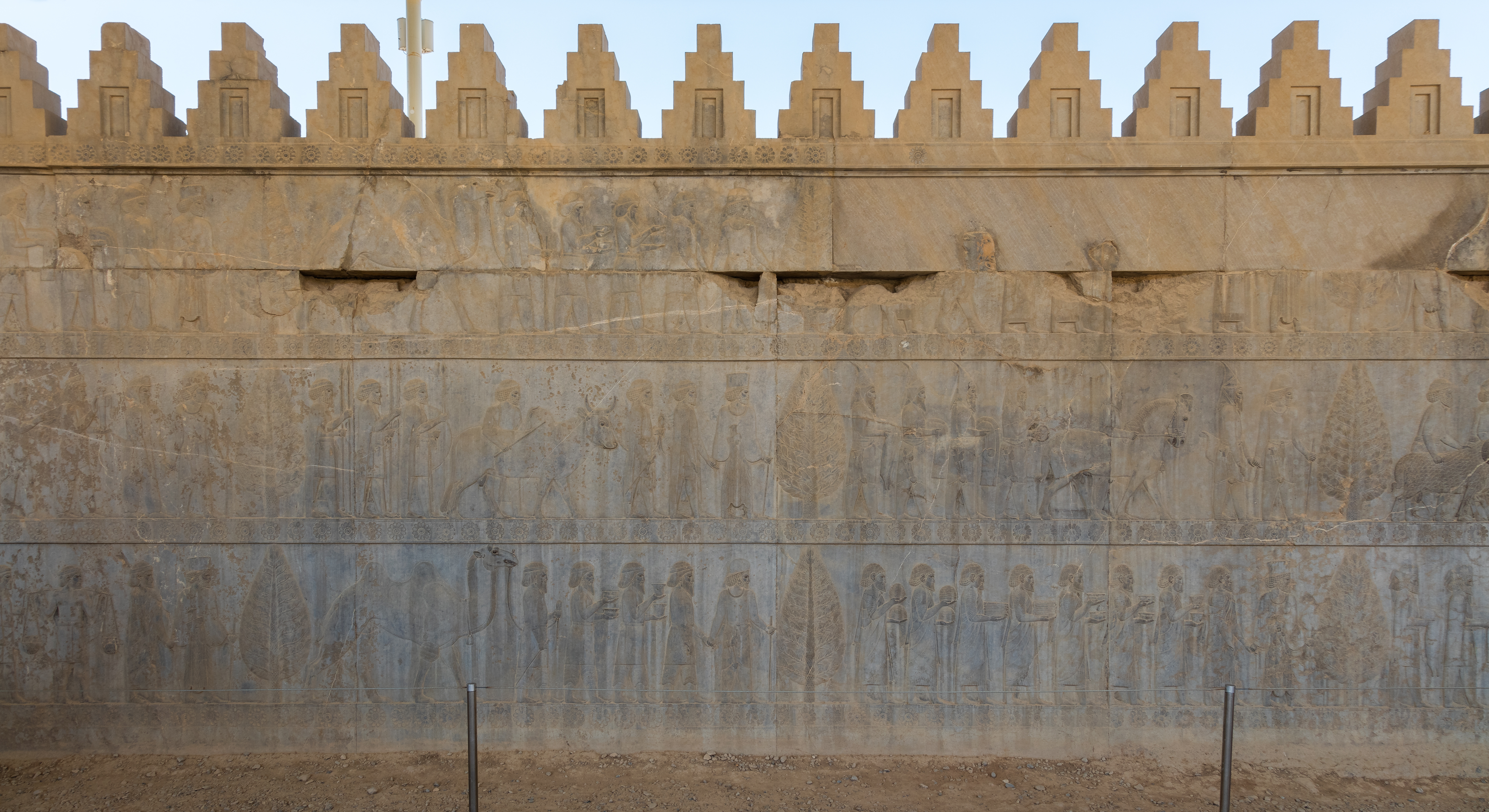 Persepolis, Iran